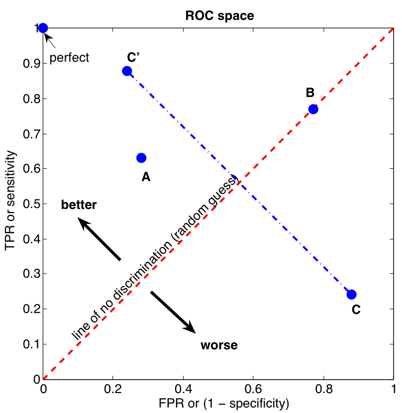 ROC space. See the explanation of each point in the Receiver Operating Characteristic article.